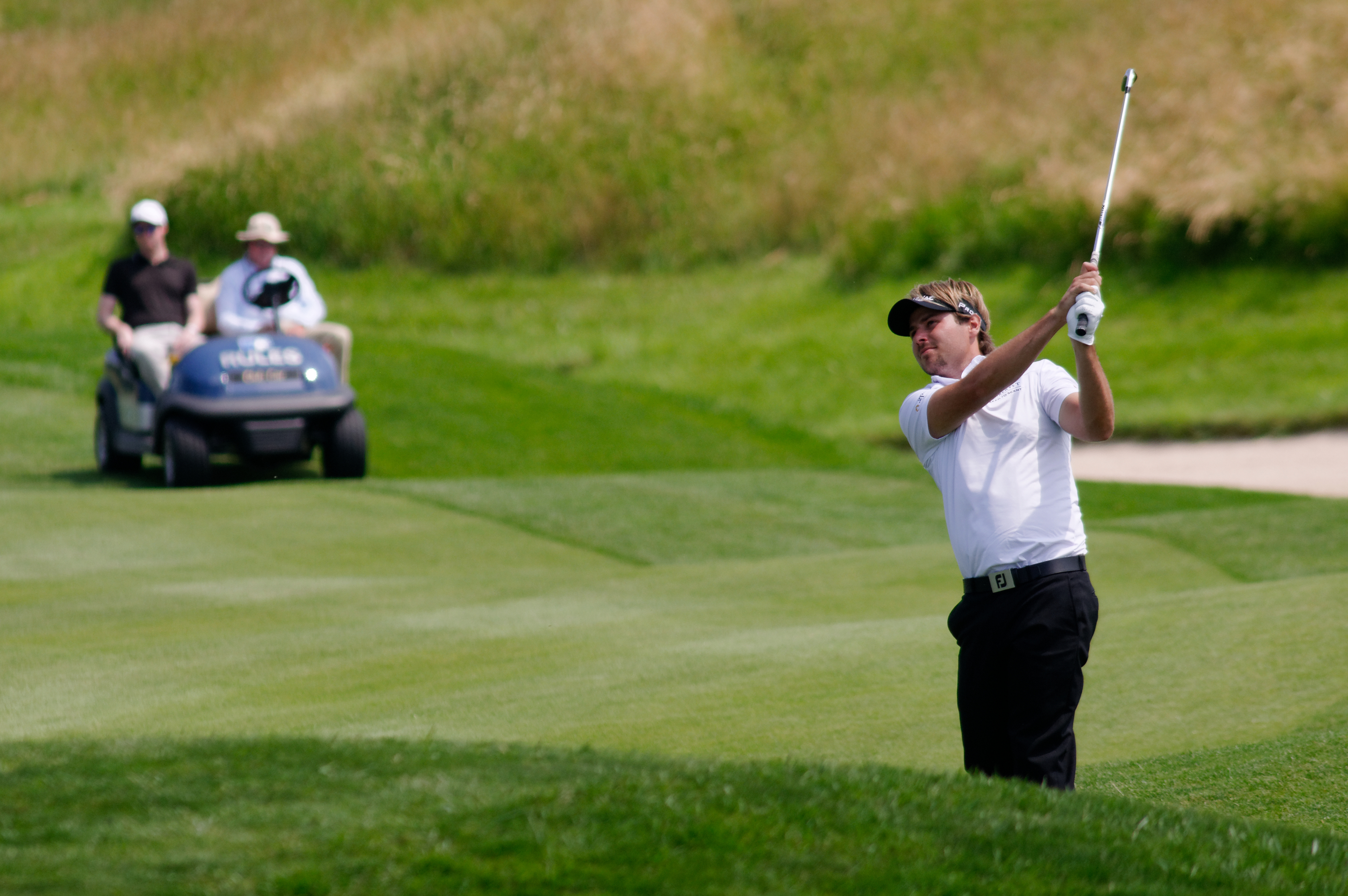 France's Victor Dubuisson drives down the 9th hole during round 3 of the French Golf Open at the Golf National in Saint Quentin en Yvelines, Saturday July 6th 2013.